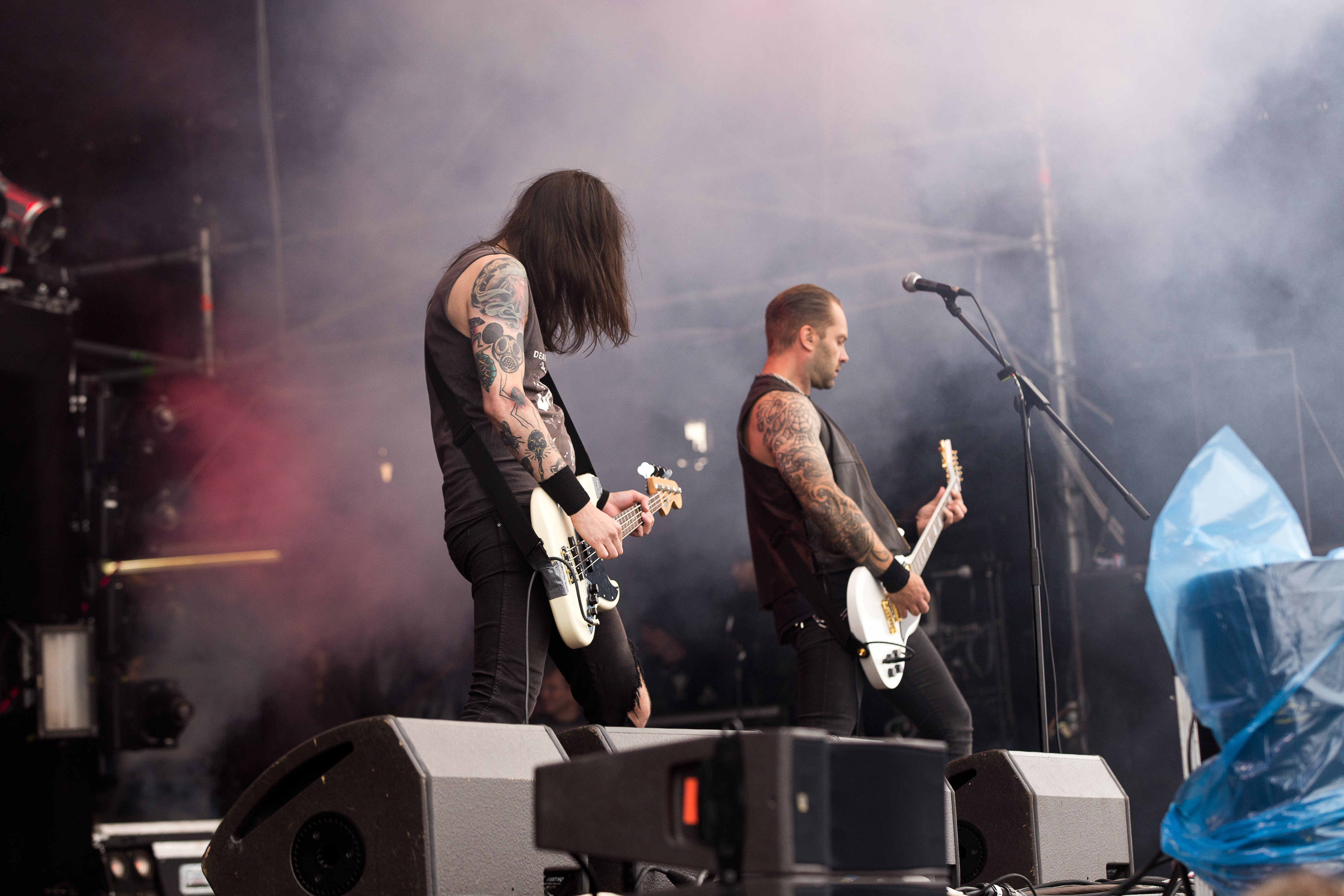 The Swedish crust punk band Wolfbrigade at the Party.San Metal Open Air 2016 in Obermehler-Schlotheim/Germany